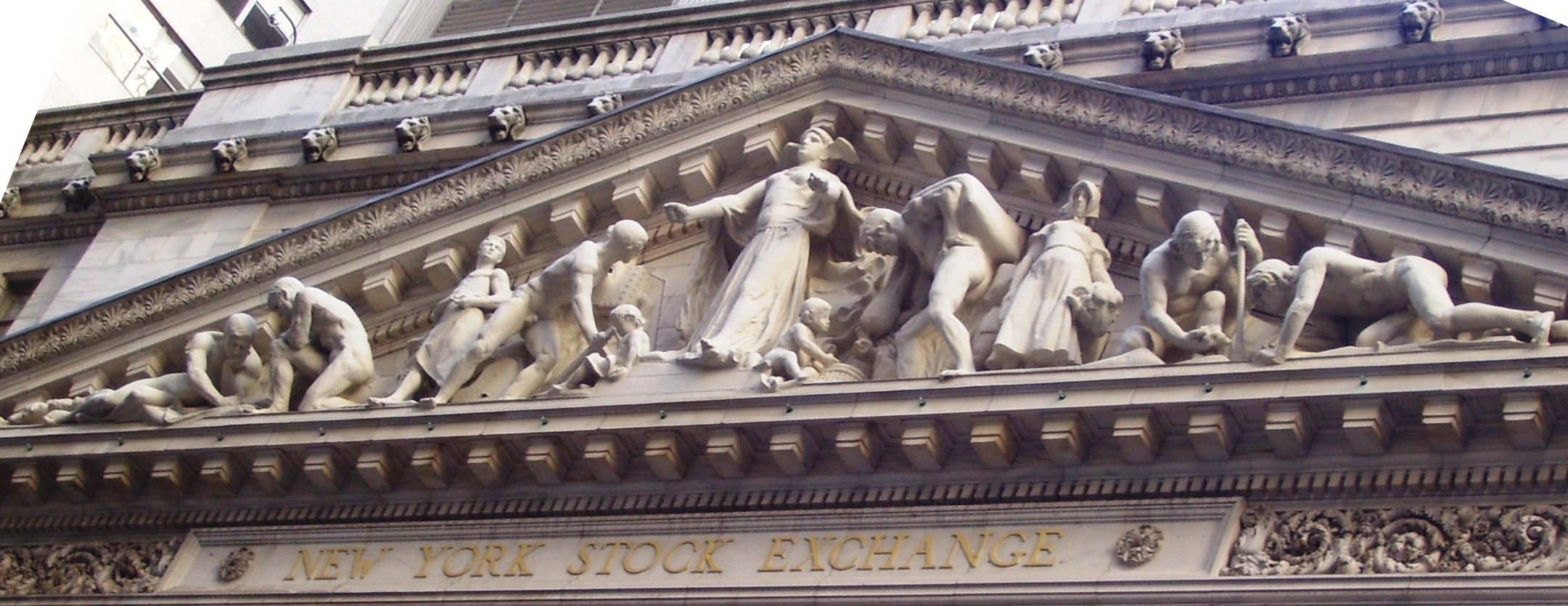 The pediment over the New York Stock Exchange building